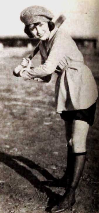 Actress Thelma Hill (1906 – 1938) when she was still known by her birth name Thelma Hillerman, on page 74 of the November 27, 1920 Exhibitors Herald. The caption states she was captain of the Special Pictures baseball team, and had challenged Mack Sennett's B.B.'s (Bathing Beauties), Al Christie's S.S.'s (Sensual Sirens), and Fox's S.M.'s (Sunshine Maidens).